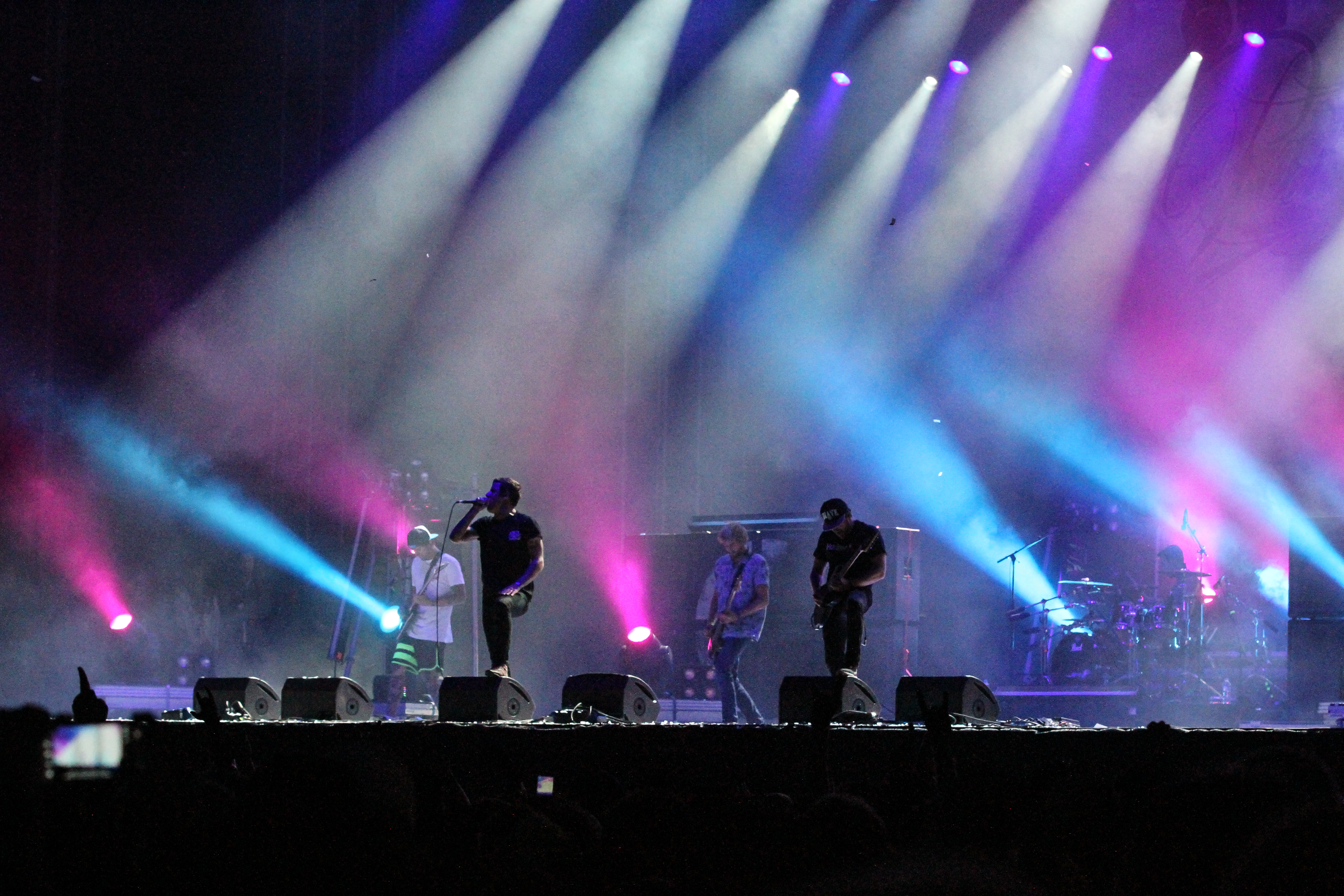 Parkway Drive performing at With Full Force Festival 2013